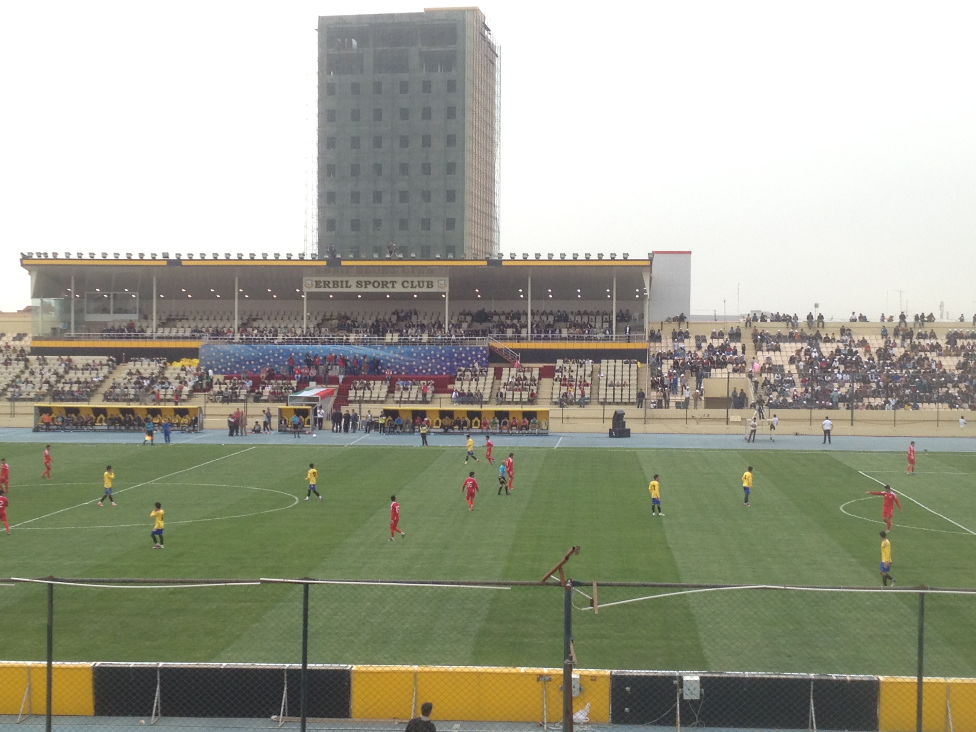 Franso Hariri Stadium Kurdî: Yarîgay franso herîrî یاریگای فرانسۆ حەریری